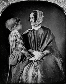 Jane Pierce, First Lady of the United States from 1853 to 1857, with her son, Benjamin. This daguerreotype was taken several years before her husband Franklin Pierce's inauguration and Benjamin's death in 1853.